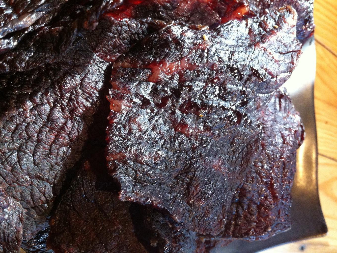 Hanu-yukpo (dried Hanu beef)